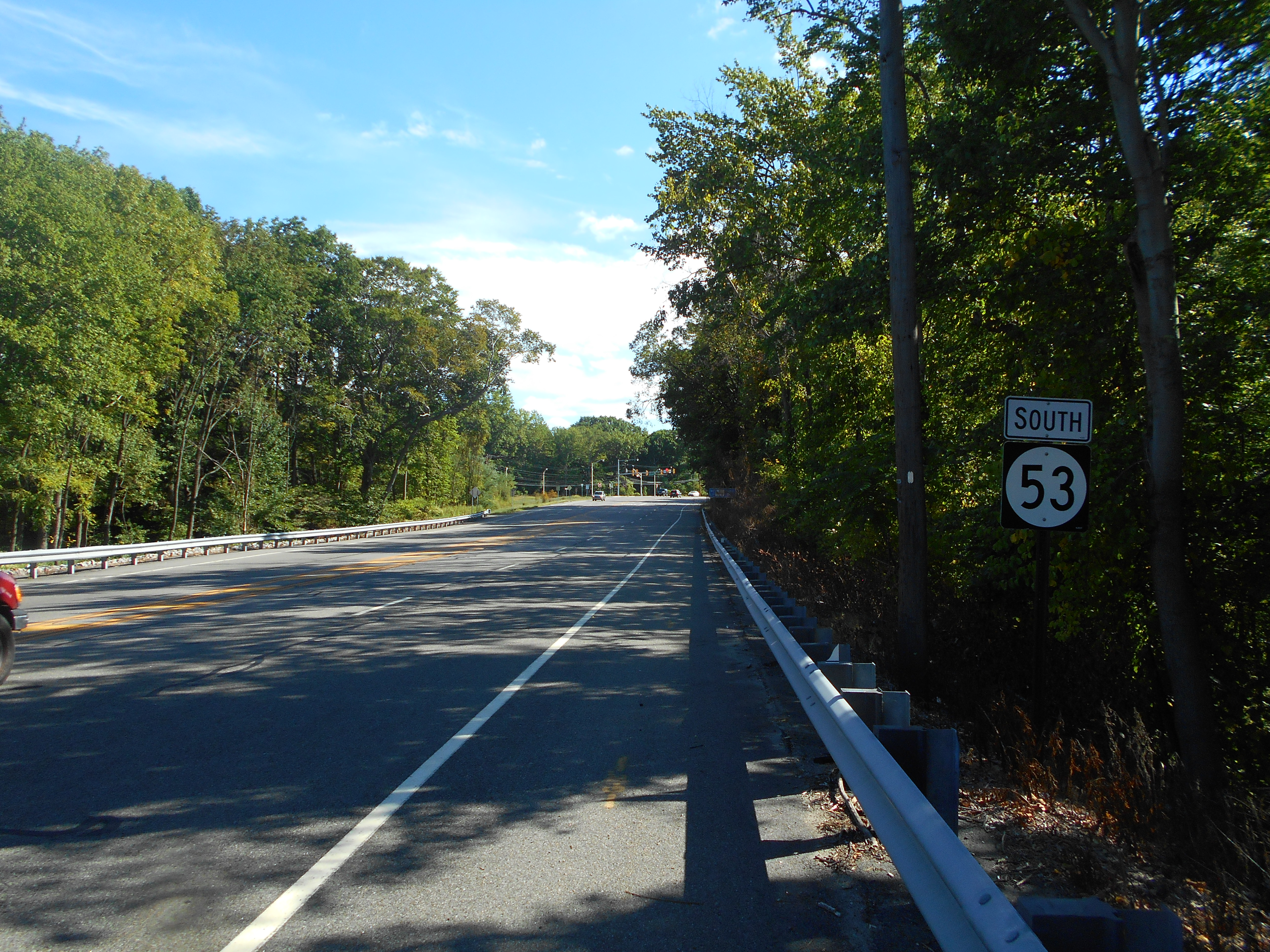 Route 53 southbound after the interchange with Route 10 westbound in Morris Plains, New Jersey.